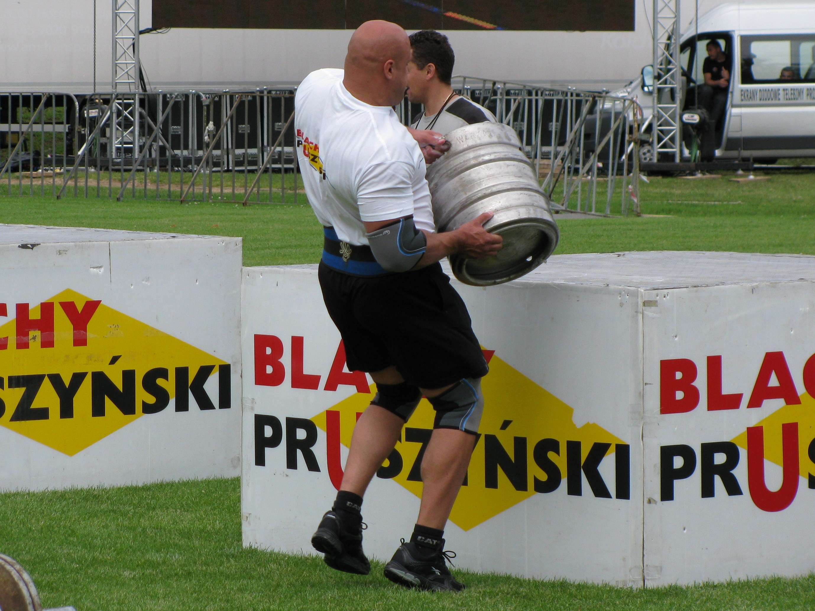 Strongmen event: Barrel Loading